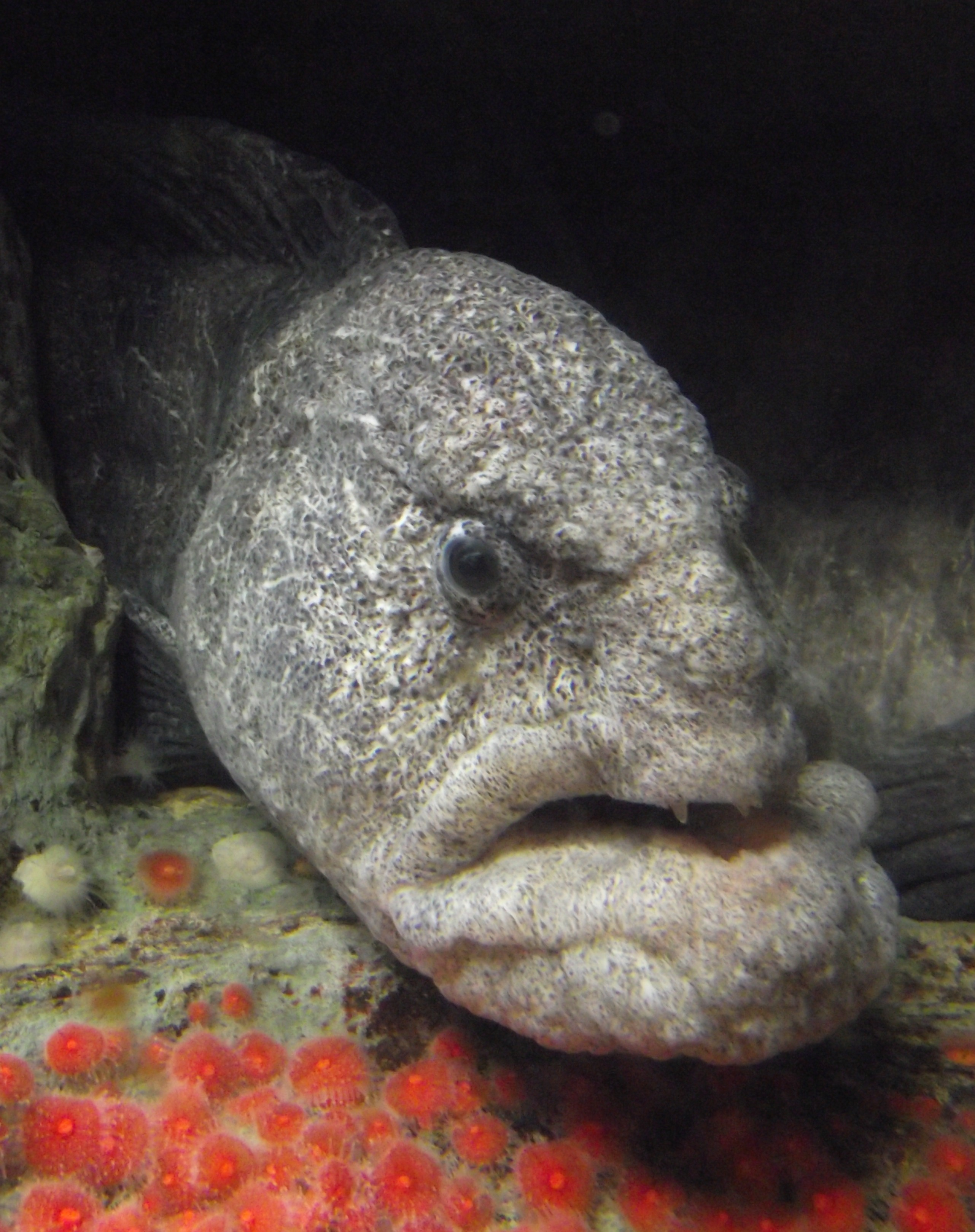 Anarrhichthys ocellatus at the Birch Aquarium, San Diego, California, USA.